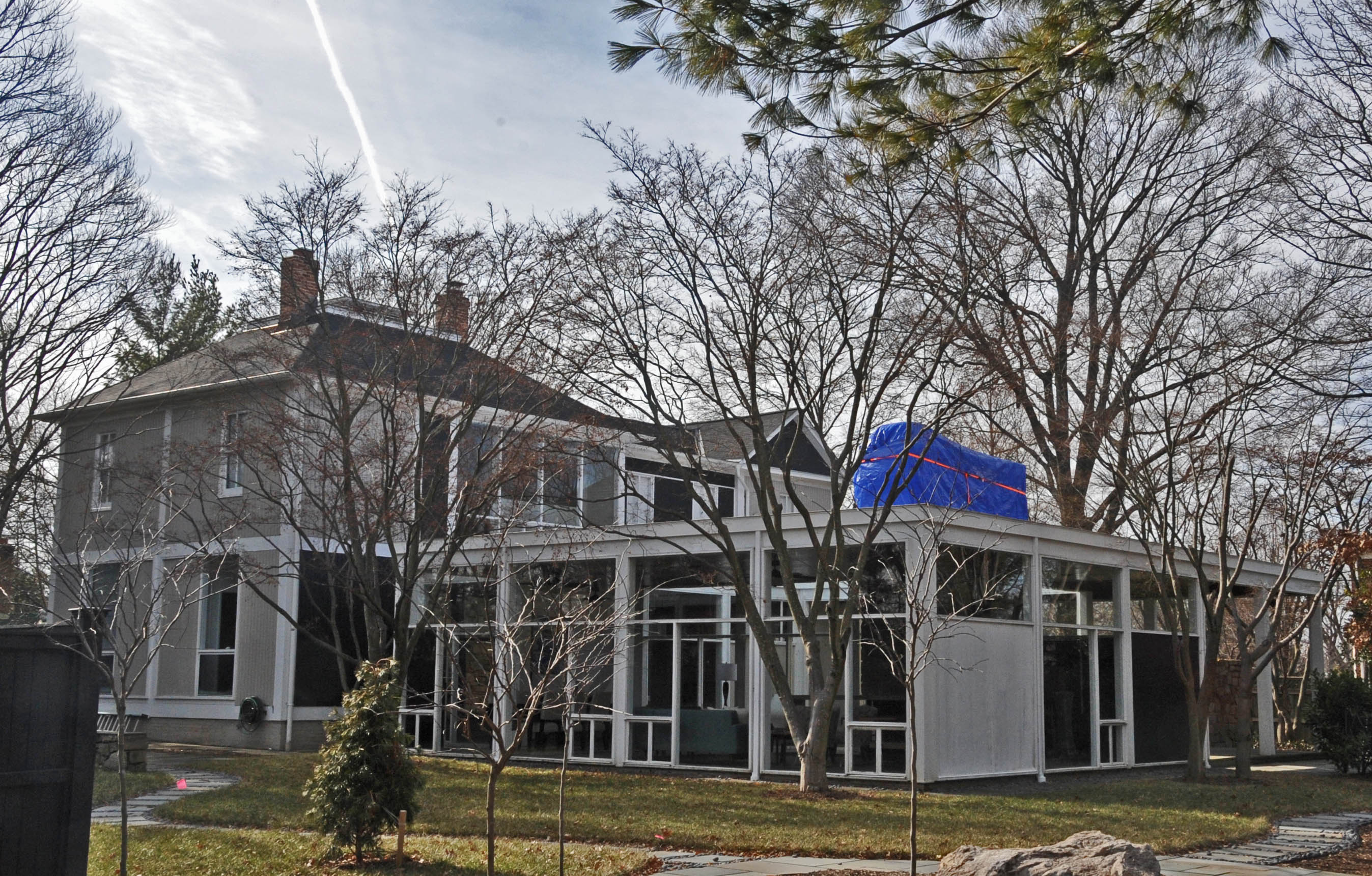 GOODMAN WAS AN ARCHITECT WHO BECAME POPULAR IN SUBURBAN WASHINGTON FOLLOWING WORLD WAR II. HE BUILT THIS HOUSE IN 1954 ON QUAKER LANE. HE ALSO DESIGNED WASHINGTON’S NATIONAL AIRPORT (NOW REAGAN AIRPORT) PLUS OTHER SUBURBAN COMMUNITIES SOME OF WHICH ARE ON THE NATIONAL REGISTRY